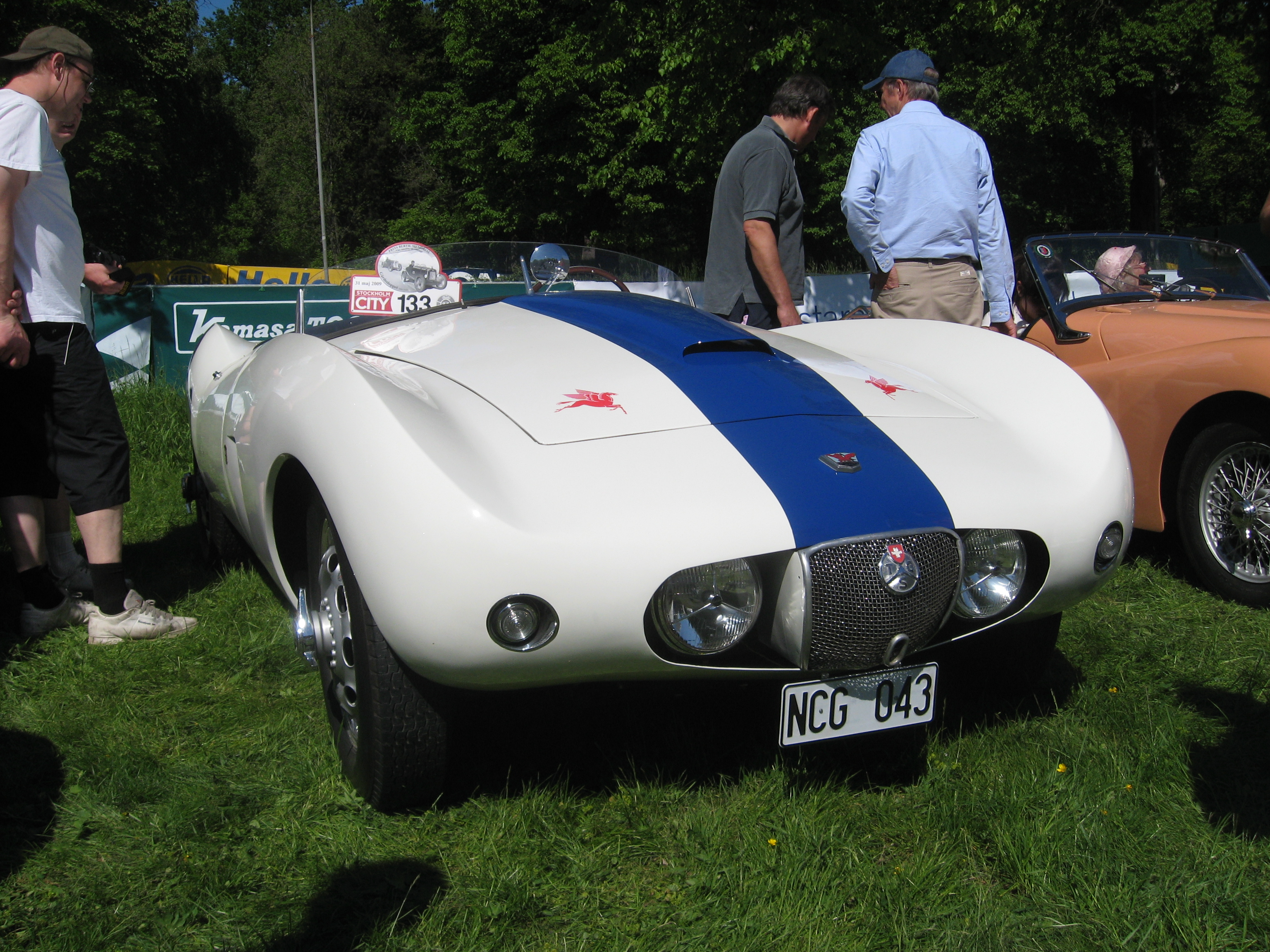 1954 Arnolt Bristol. Notice how the fenders are designed to draw the attention from the rather high hood line.